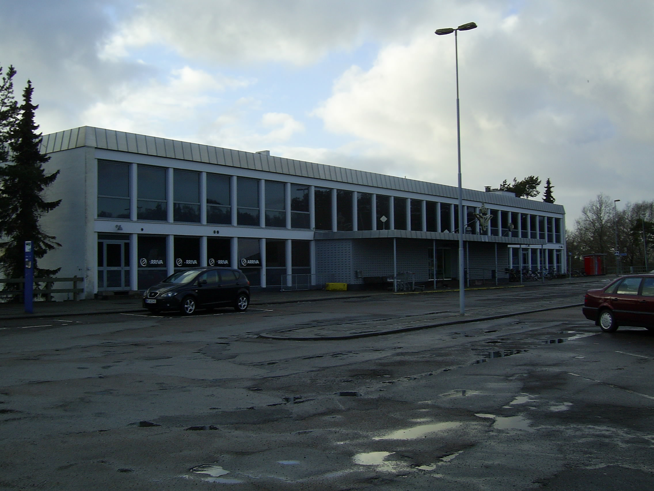 Skive railway station in Skive, Central Denmark Region, Denmark.